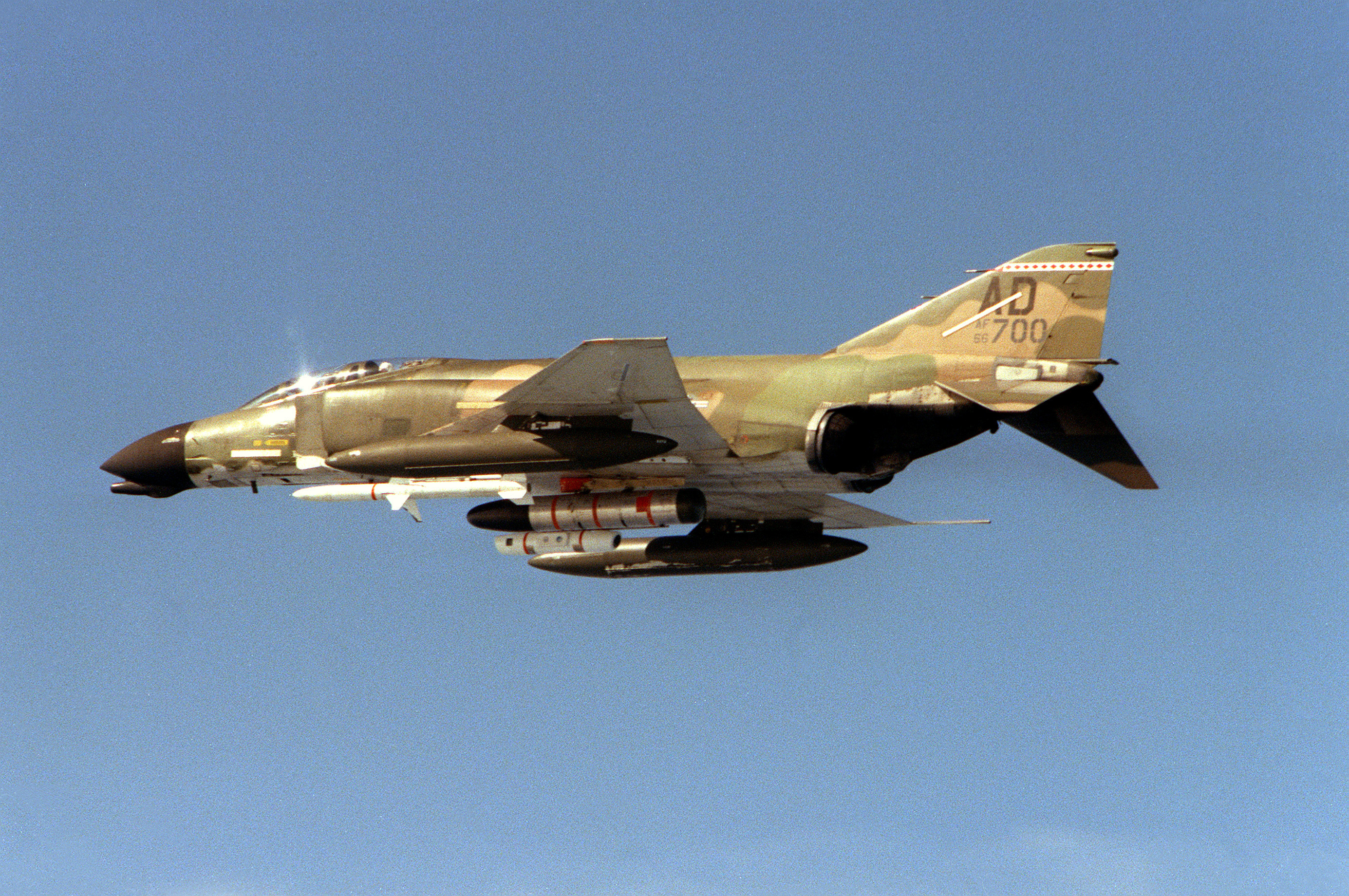 A U.S. Air Force McDonnell Douglas F-4D-32-MC Phantom II fighter (s/n 66-8700) armed with an AGM-88A high-speed anti-radiation missile (HARM) in flight near Eglin Air Force Base, Florida (USA), on 30 September 1983. This aircraft was the only F-4 fitted with the experimental "Pave Fire" laser designator in 1969-70. It was later used for tests.